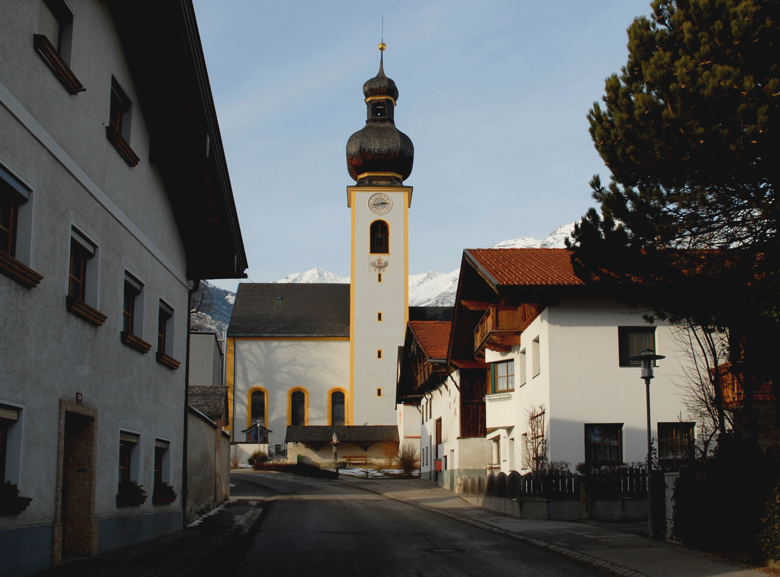 In the center of Mils near Hall in Tirol with parish church